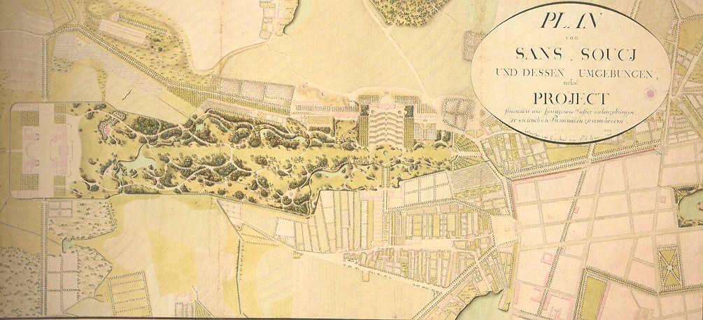 plan of park Sanssouci by Peter Joseph Lenné.